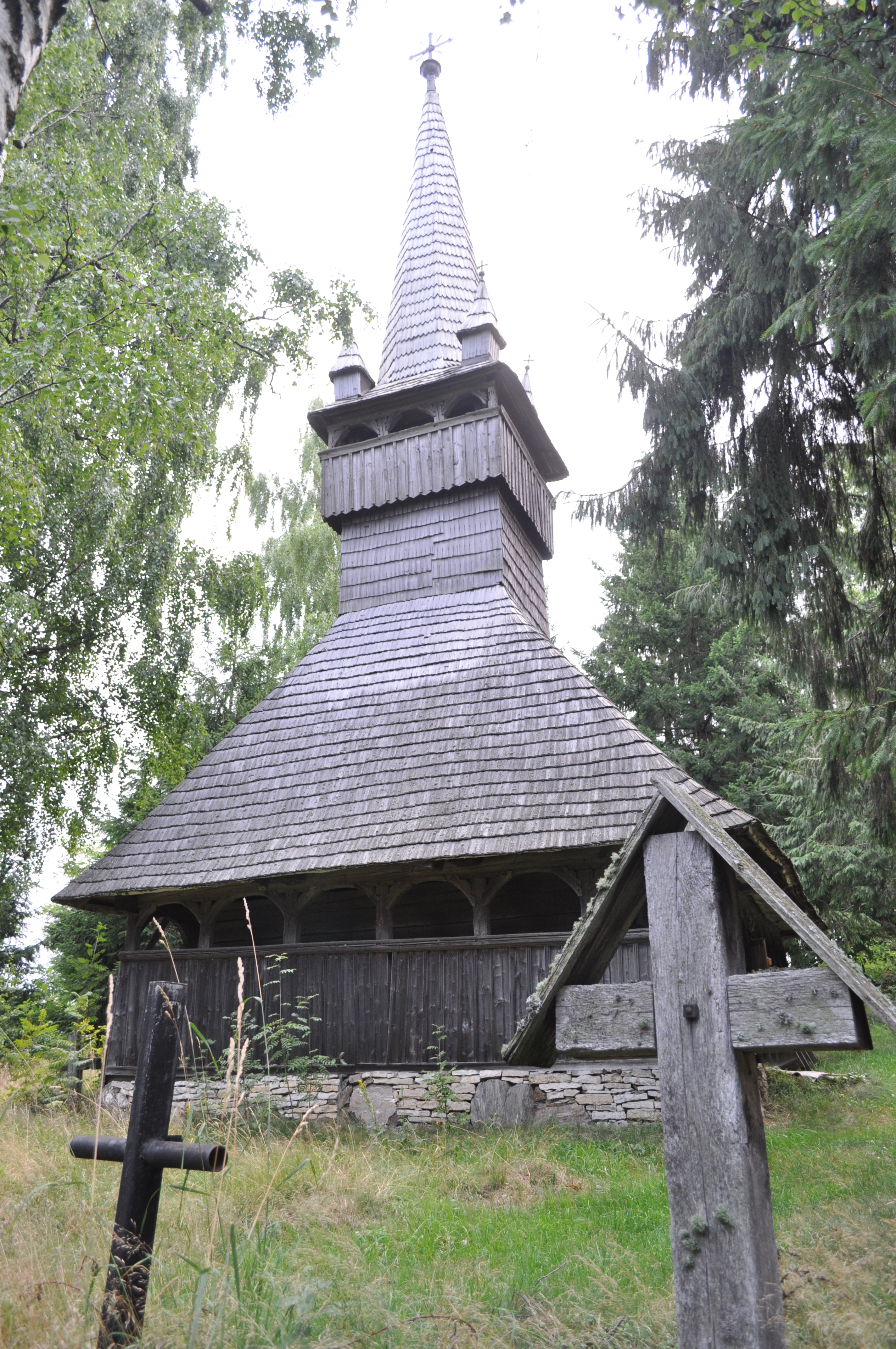 Wooden church in Dângău Mic, Cluj countyRomână: Biserica de lemn din Dângău Mic, județul Cluj